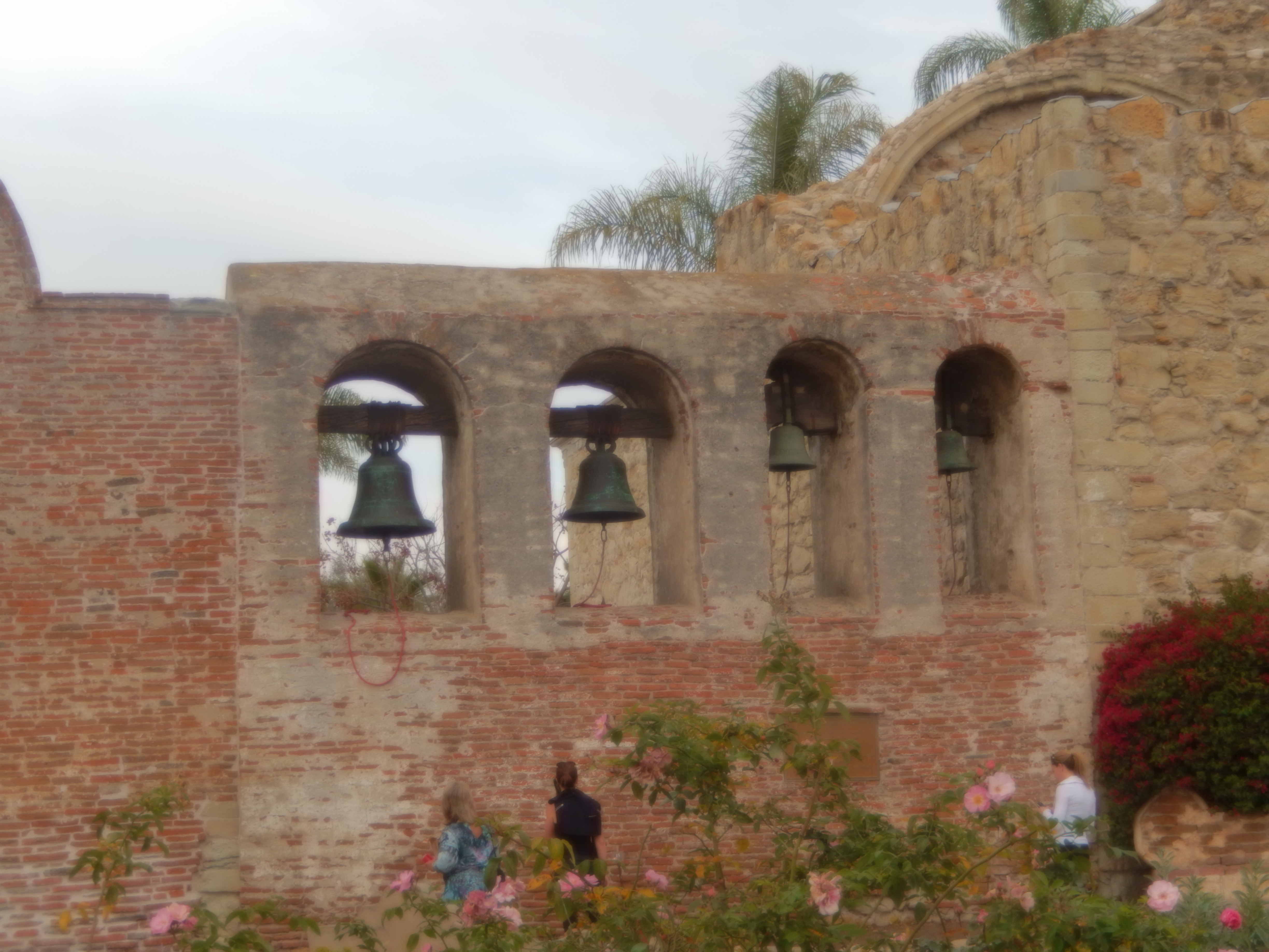 I took photo of bells at Mission San Juan Capistrano in CA with Nikon camera.